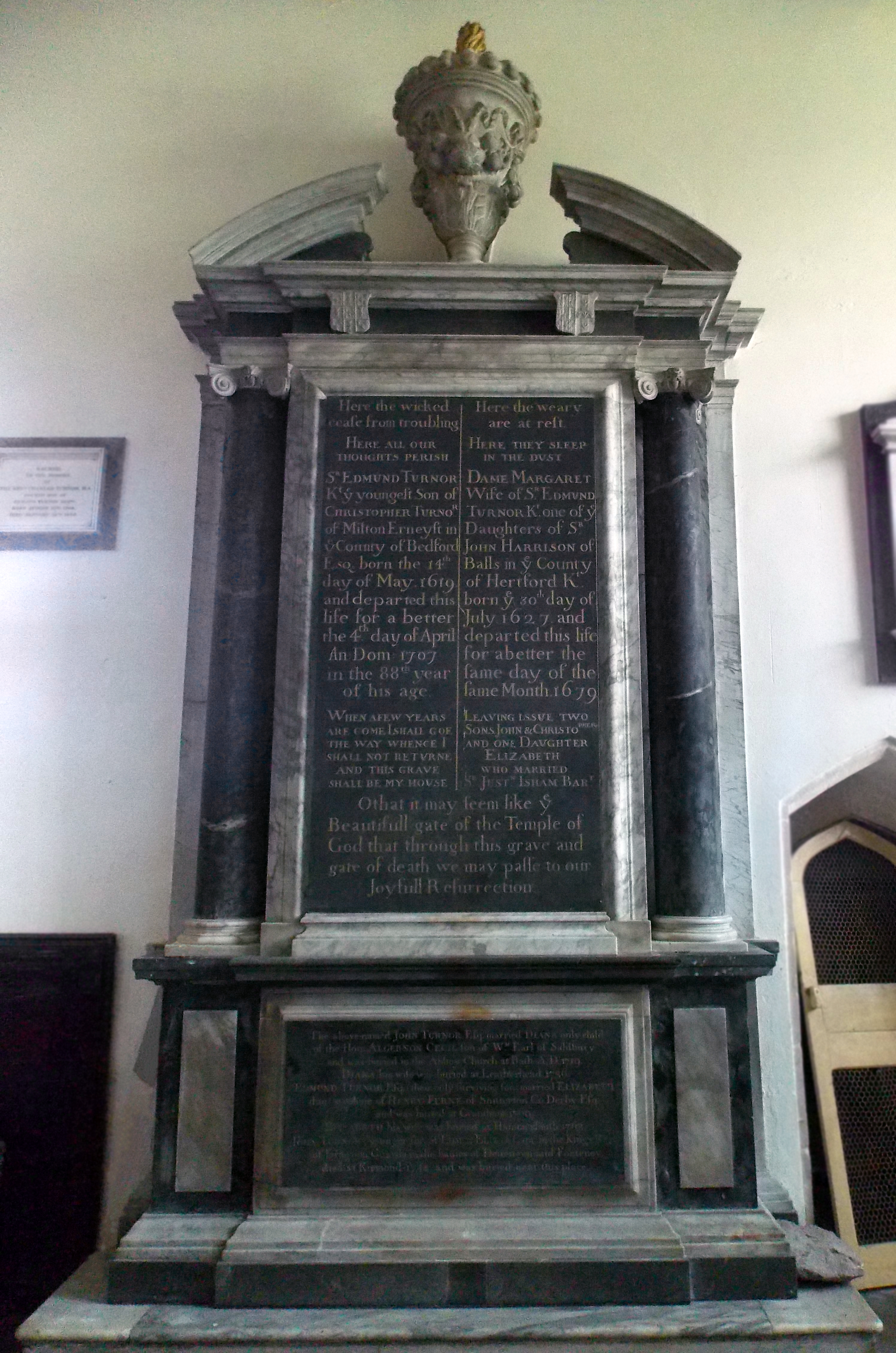 St Mary and St Andrew, Stoke Rochford interior - monument to Edmund Turnor (1619–1707)